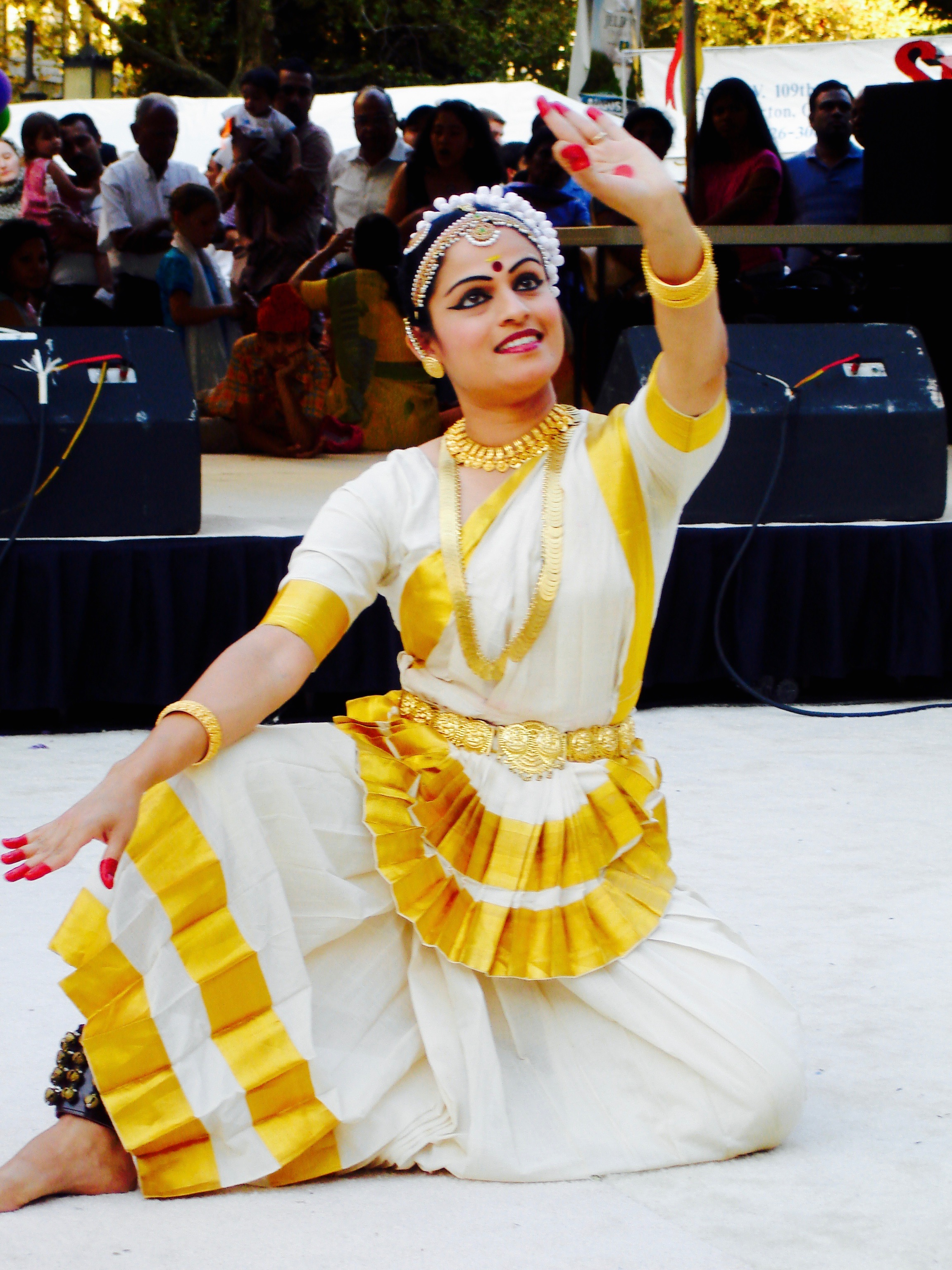 Classical Indian dance, Hindu performance arts